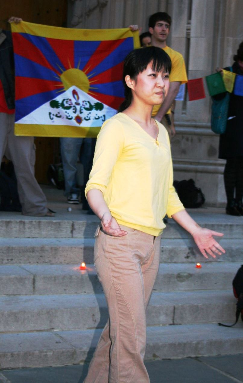 Grace speaking